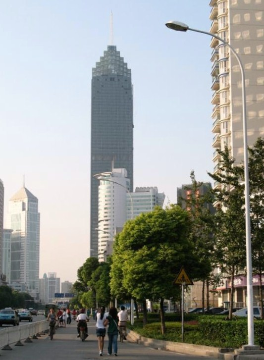 Minsheng Bank Tower/Building, Wuhan, Hubei Province, P.R.China.